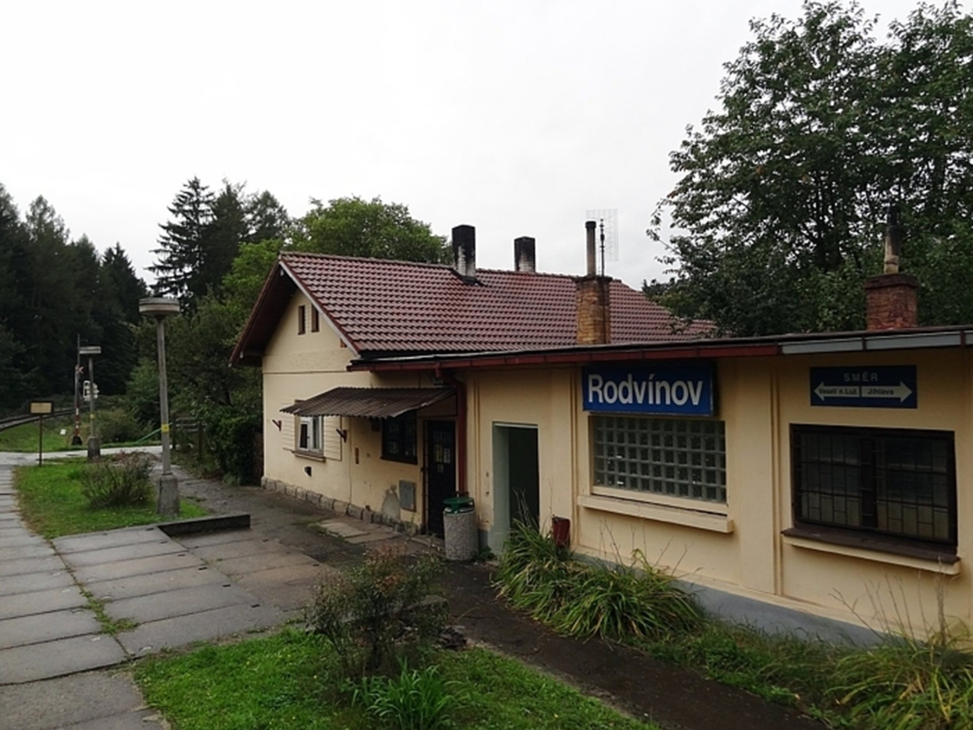 Zastávka ČD Rodvínov